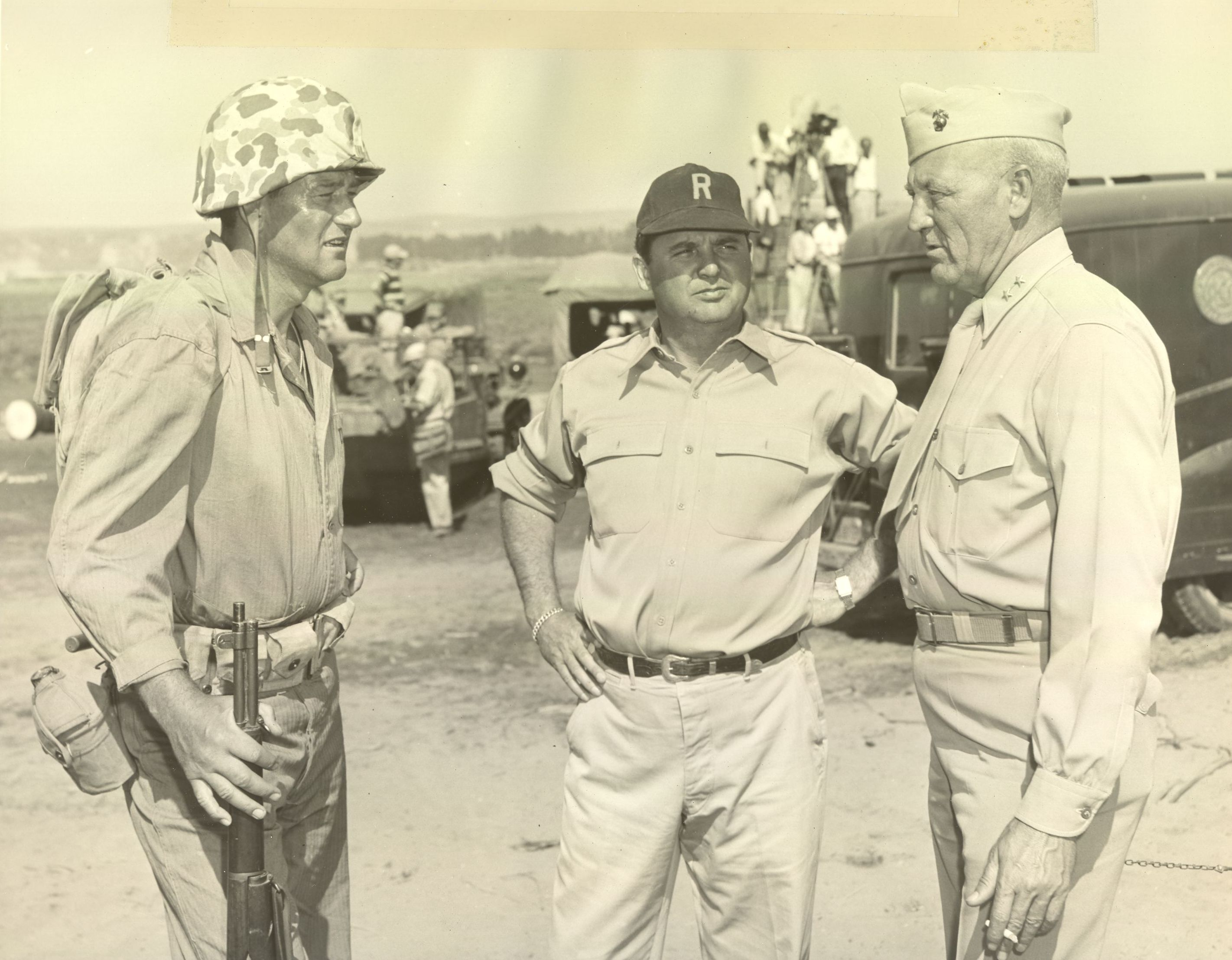 Major General Graves B. Erskine talks with John Wayne during the filming of Sands of Iwo Jima. From the Graves B. Erskine Collection (COLL/3065) at the Marine Corps Archives and Special Collections OFFICIAL USMC PHOTOGRAPH